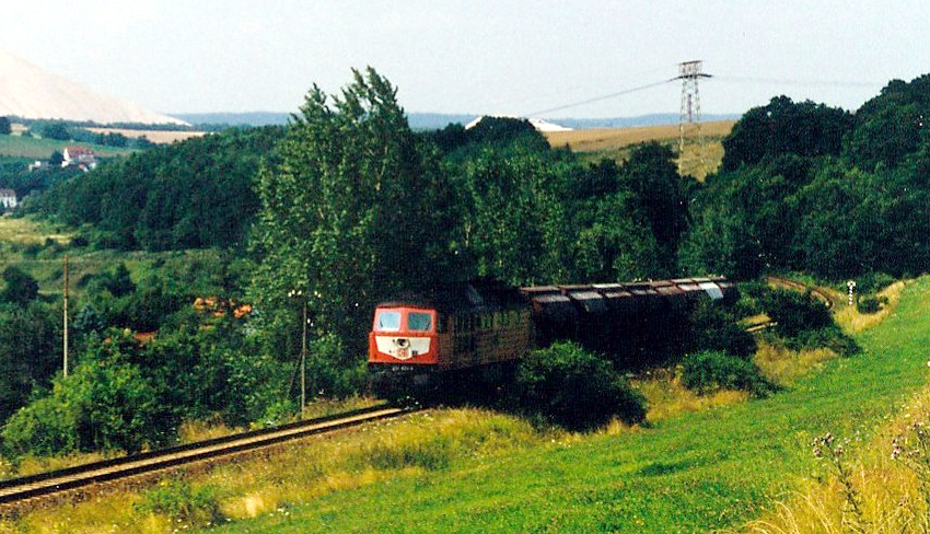 One of the last trains between Vacha and Unterbreizbach in Thuringia